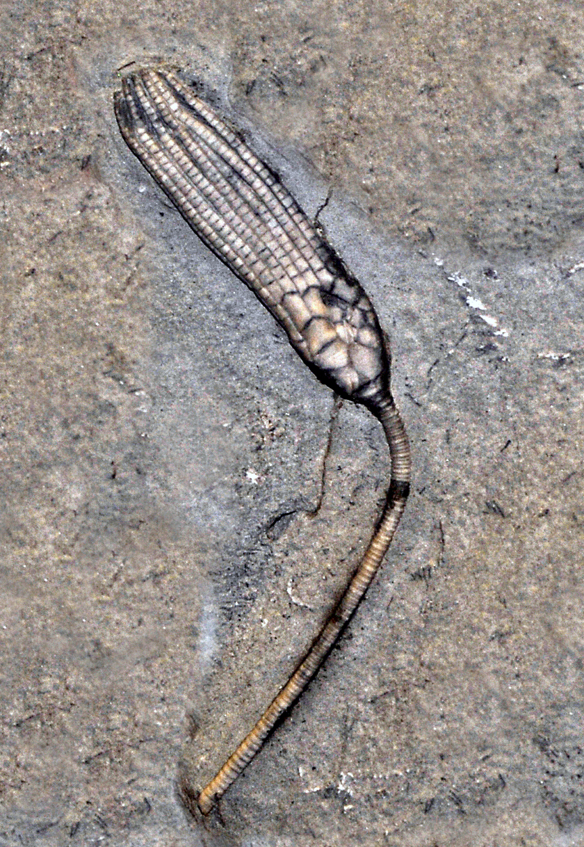 Fossil of Ulrichicrinus from Carboniferous of United States, on display at the Museo Civico di Storia Naturale di Milano